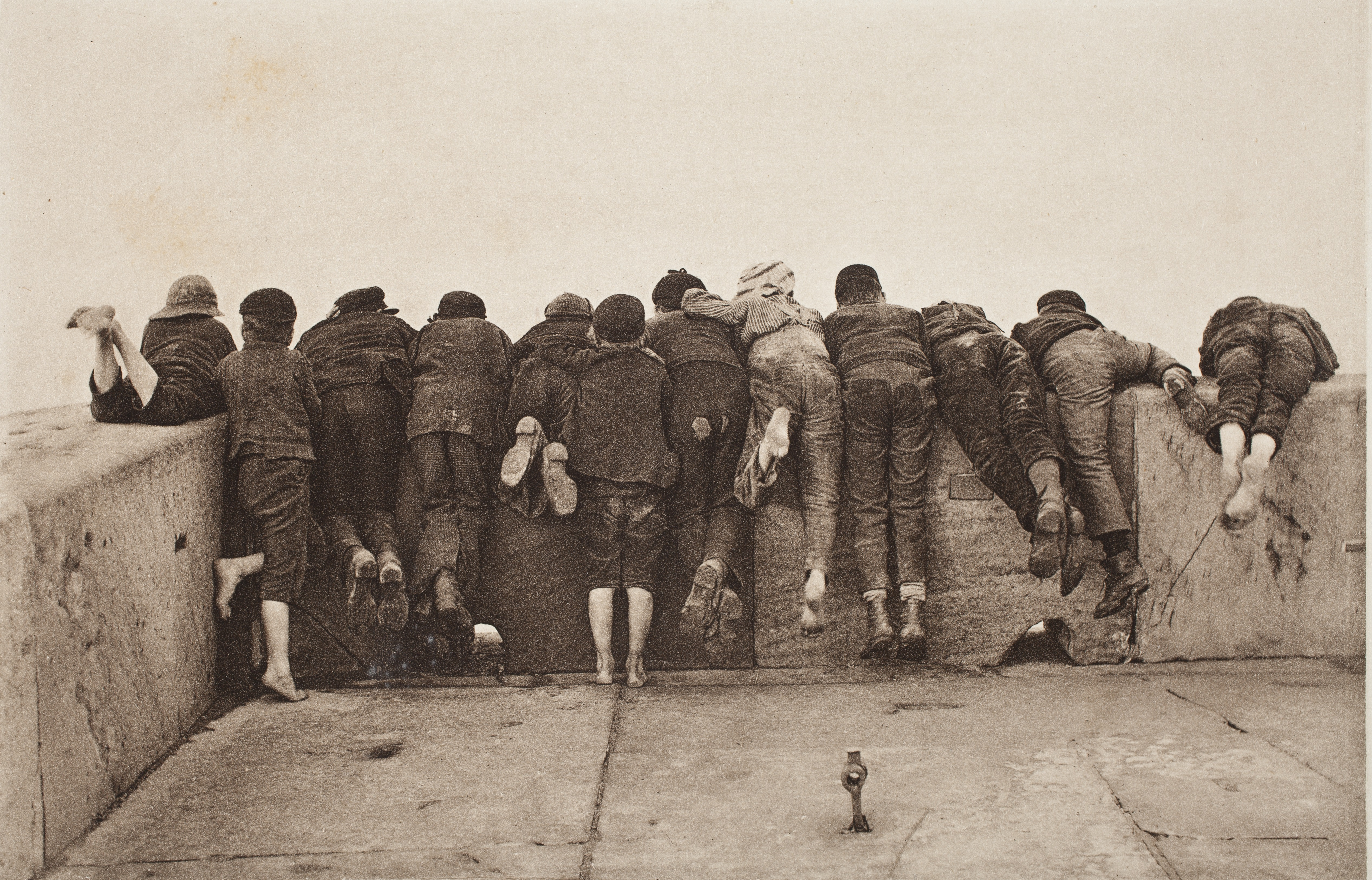 The Marjorie and Leonard Vernon Collection, gift of The Annenberg Foundation, acquired from Carol Vernon and Robert Turbin (M.2008.40.2223.22). Photographed by Francis Meadow Sutcliffe and printed in England, 1889-1891. More information at LACMA